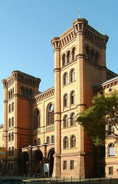 former Gutleut-Kaserne in Frankfurt-Gutleut, photo taken by myself on 31. Okt. 2005. The building is now a police station.